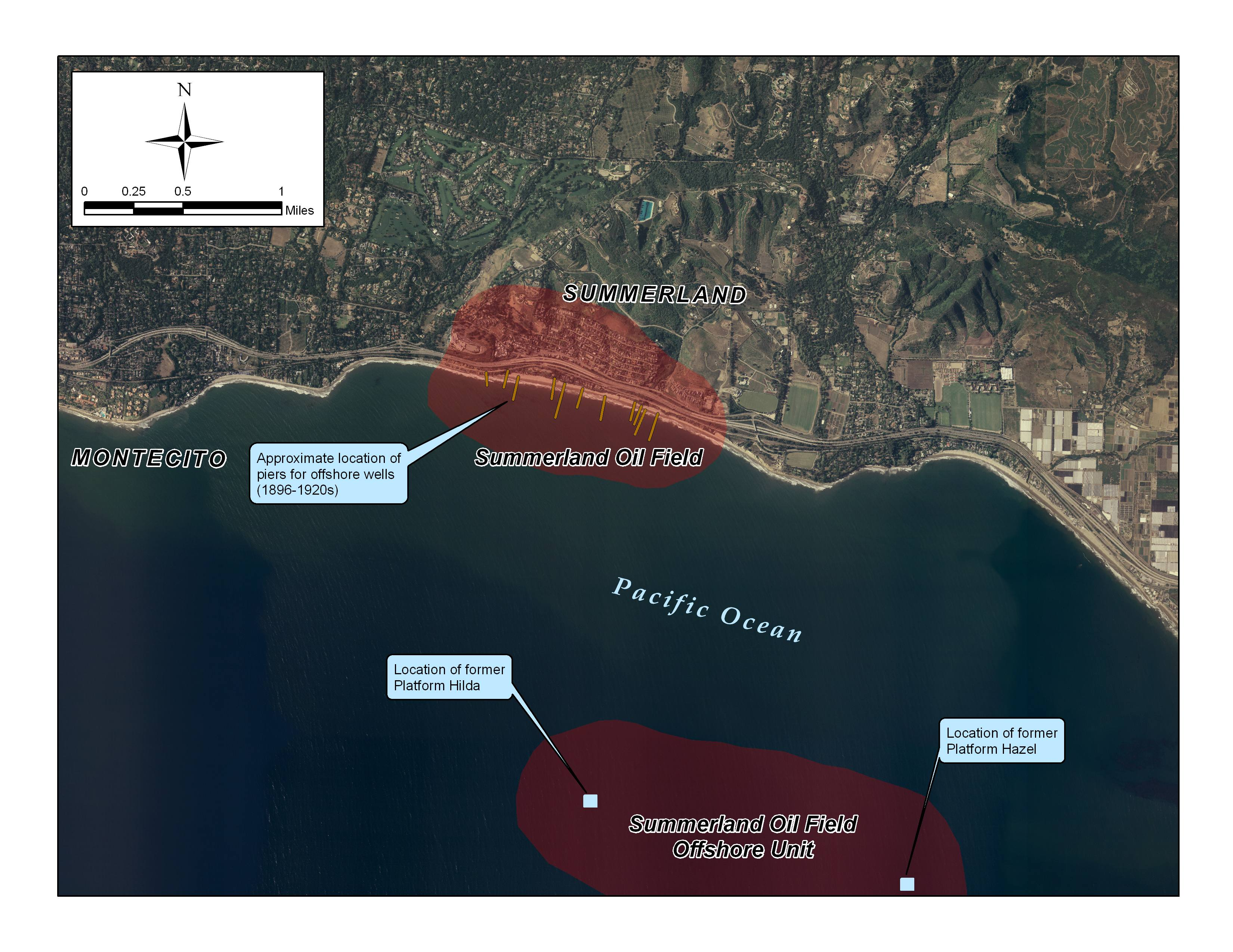 Detail of Summerland and Summerland Offshore fields; all data on this map is in the public domain; by self using ArcGIS 9.3